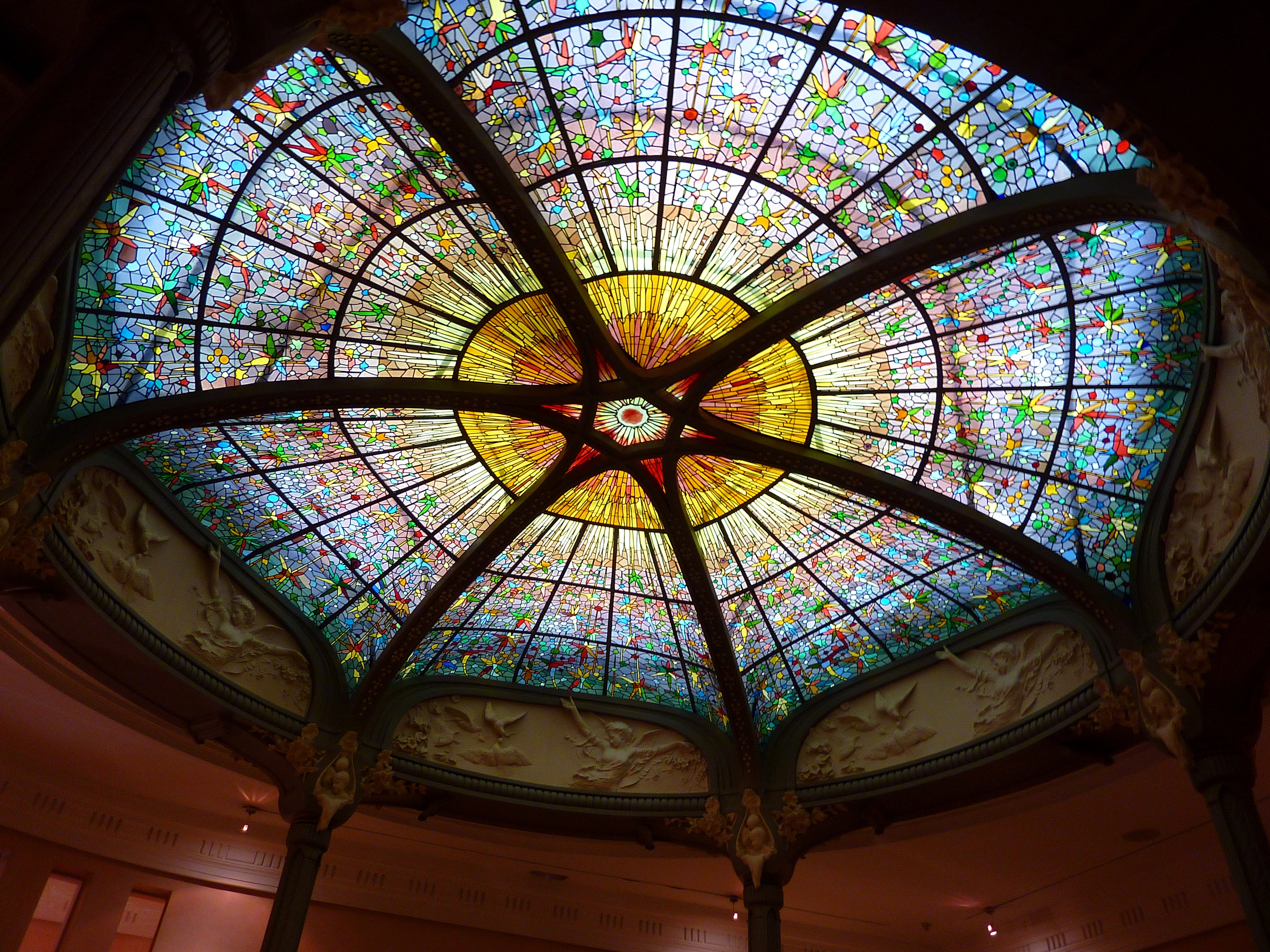 Dome of the Longoria Palace, Madrid, Spain.